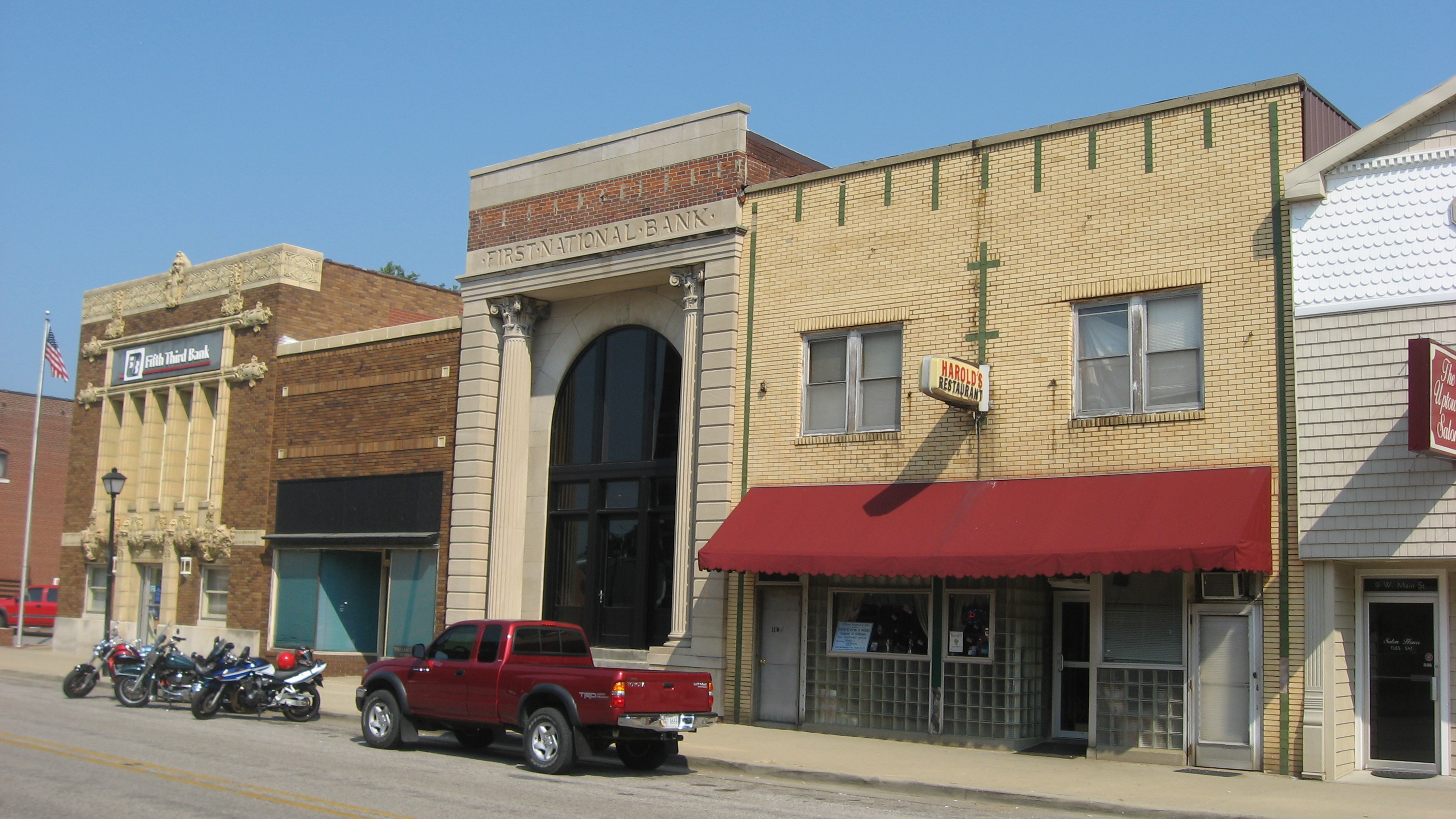 Buildings on the northern side of the first block of W. Main Street (State Roads 68/165) in downtown Poseyville, Indiana, United States. From right to left, they were built in 1950, 1915, 1915, 1900, and 1924; the middle building is the Neoclassical First National Bank, and the leftmost is the Art Deco Bozeman-Waters National Bank, which is listed on the National Register of Historic Places. This block is part of the locally-designated Poseyville Historic District.